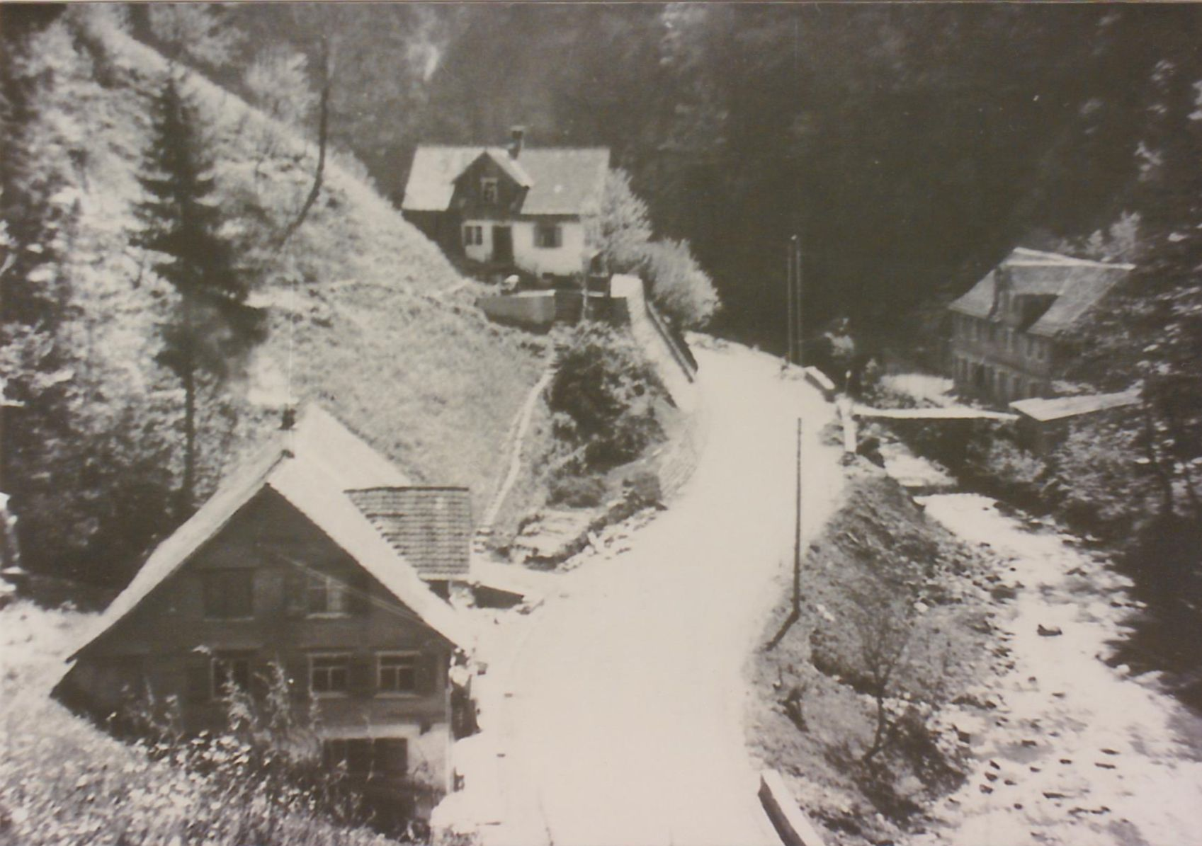 Quarry of the Troll-Company in the Schwarzachtobel in Schwarzach, Vorarlberg, Österreich.